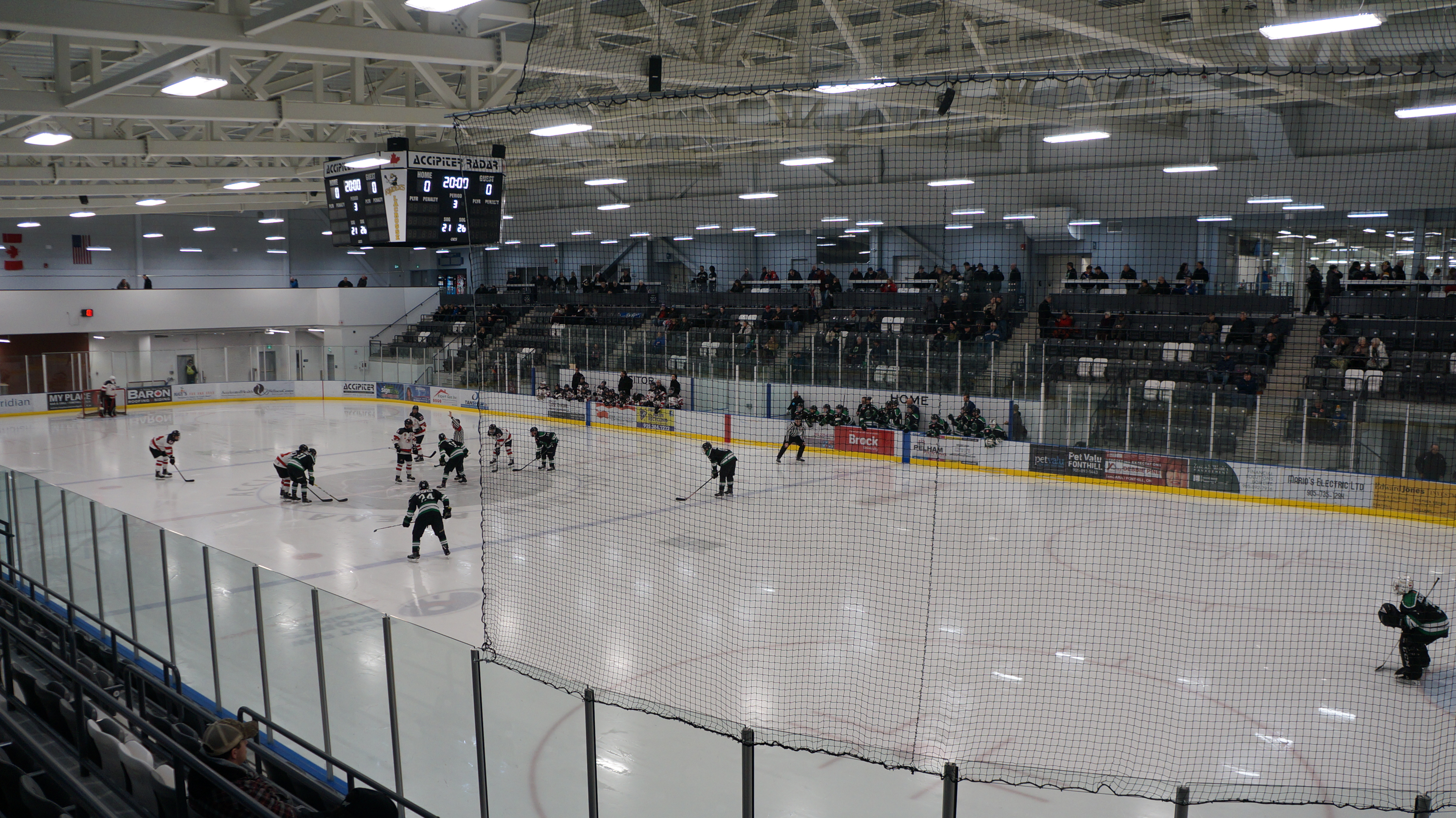 The Pelham Panthers hosting the Niagara Falls Canucks at the Merdian Community Centre in Pelham, Ontario on February 10, 2019.